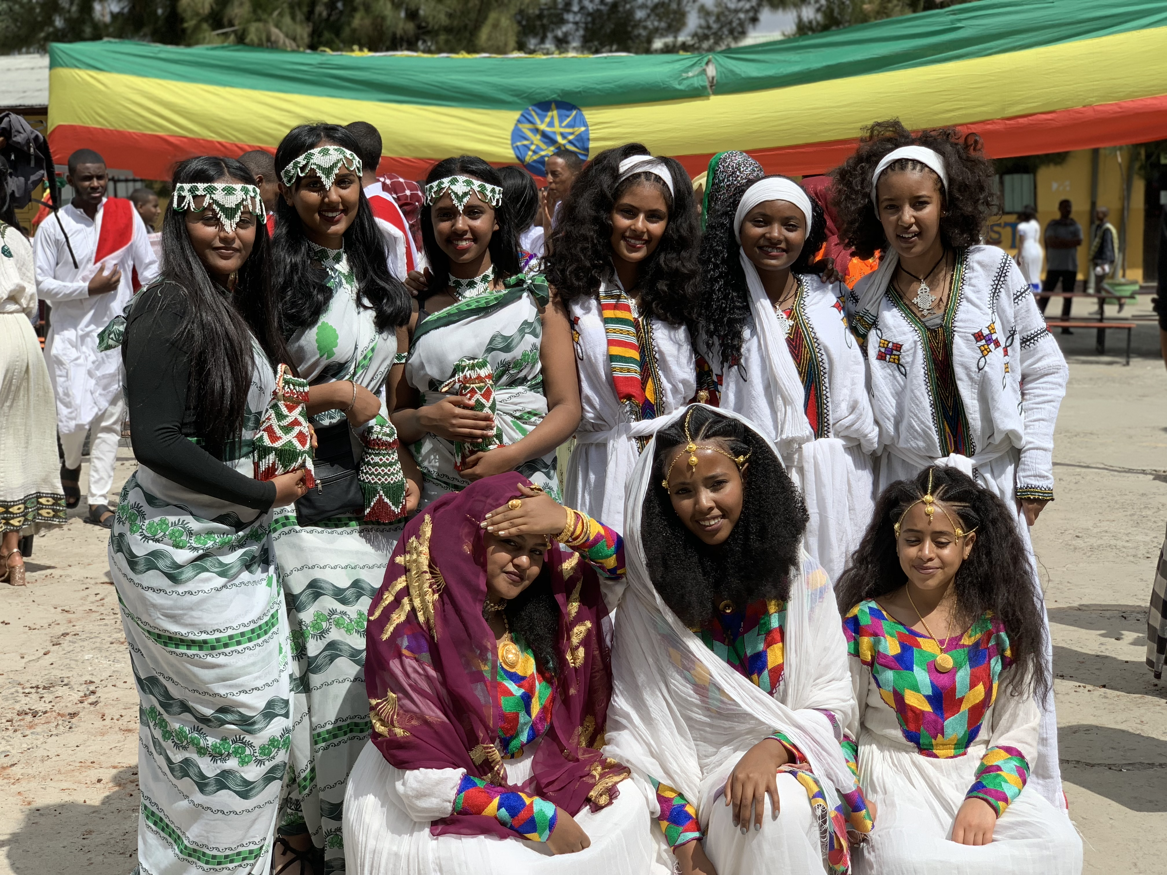 ‘December 8’annual ethiopian cultural day We all ethiopian are diverse we celebrate our own culture by introducing to all the world This is the picture of 3 different cuture all together with love and prosperity But there are more than 80 different cultures This is an image with the theme "Play" from: Ethiopia